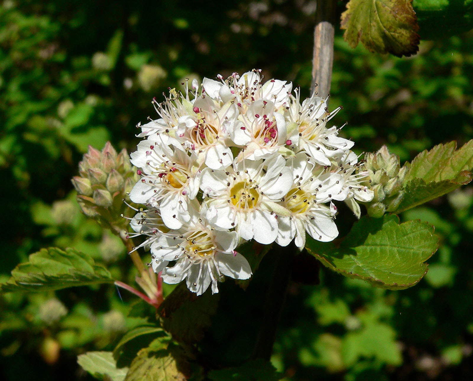 Physocarpus monogynus at the University of California Botanical Garden, Berkeley, California